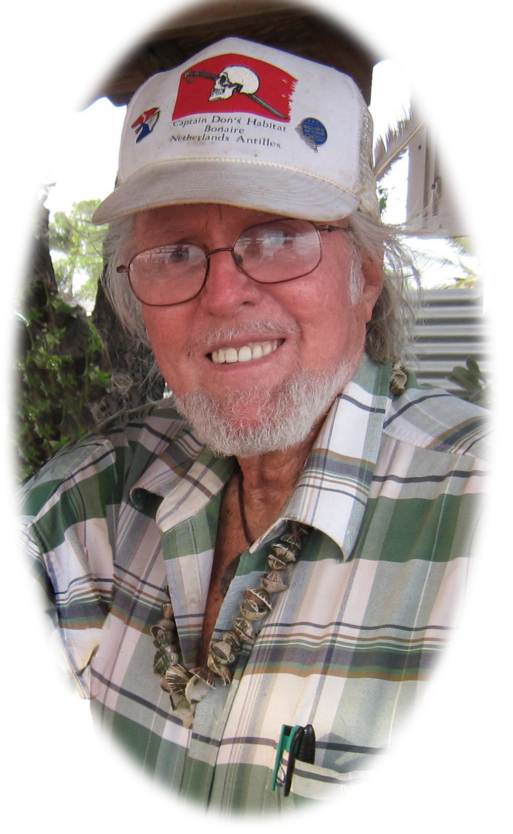 Monday evening Rum Punch Party at Captain Don's Habitat on the island of Bonaire, Caribbean Netherlands, BES Islands